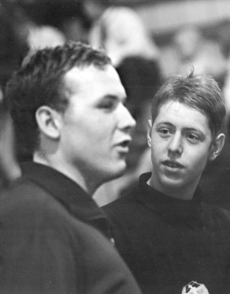 Karl-Rüdiger Mann (left) and Thomas John